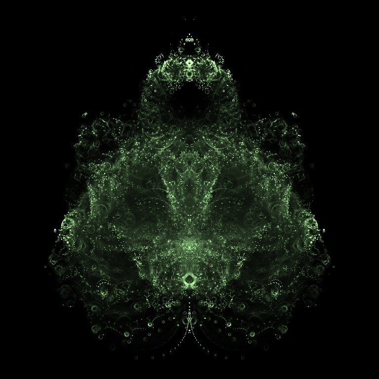 Buddhabrot fractal Made by Evercat This Buddhabrot was made by rendering only particles which took between 6,500 and 35,000 iterations to escape. A version without lossy compression is available at Image:Buddhabrot-deep-only.png. It's worth noting that precisely which values c get iterated through the Mandelbrot function can profoundly affect the details in the resulting image (remember: the values c are an evenly spread grid of values). Shift the grid a little bit (thus changing all the values c being used) and you get a different image. Moral: when drawing deeply iterated Buddhabrots, there's not really a truly representative result.